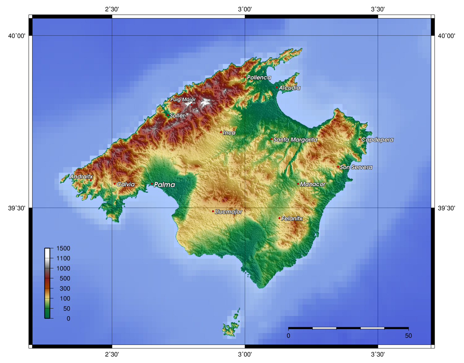 Mapa Topographic of Mallorca, created with GMT 4.1.3.